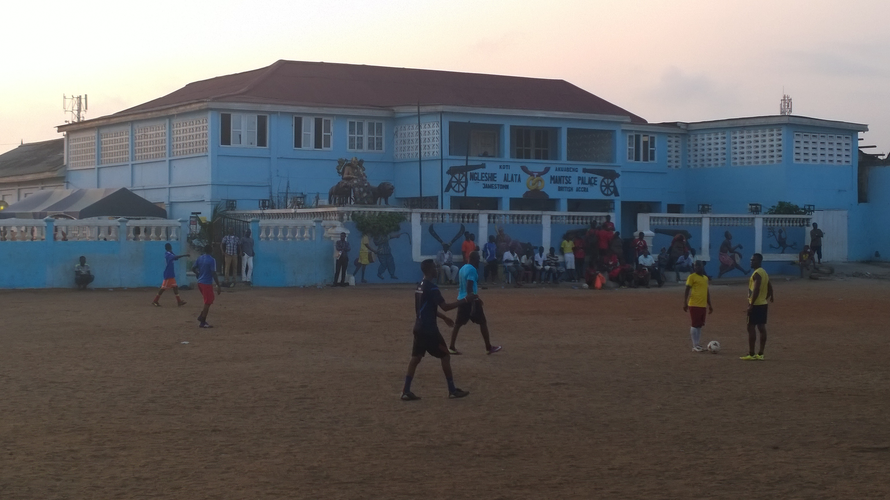 Boys playing ball at the Mantse Palace courtyard, Accra. This is an image of music and dance from Ghana